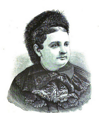 Judith Ellen Foster